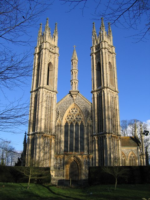 Parish church of St Michael and All Angels St Michaels, Booton, Norfolk, seen from the west